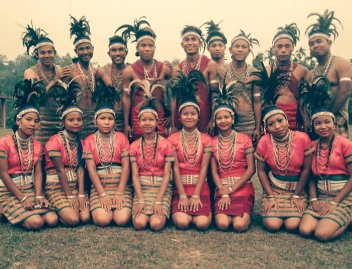 These beautiful people are belongs to tribal community in India. This photo has been taken in the country: India